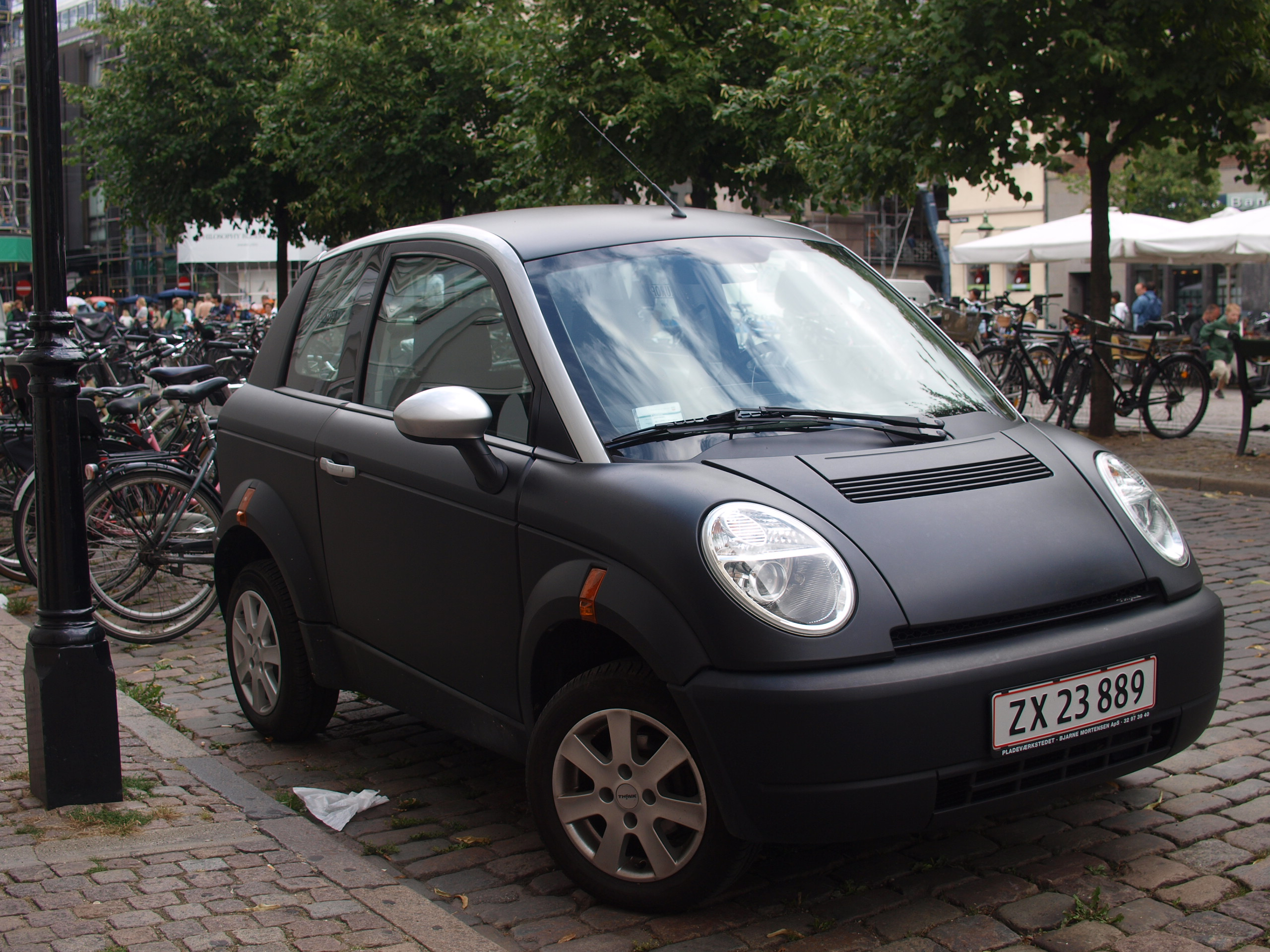 A Th!nk City in Denmark.